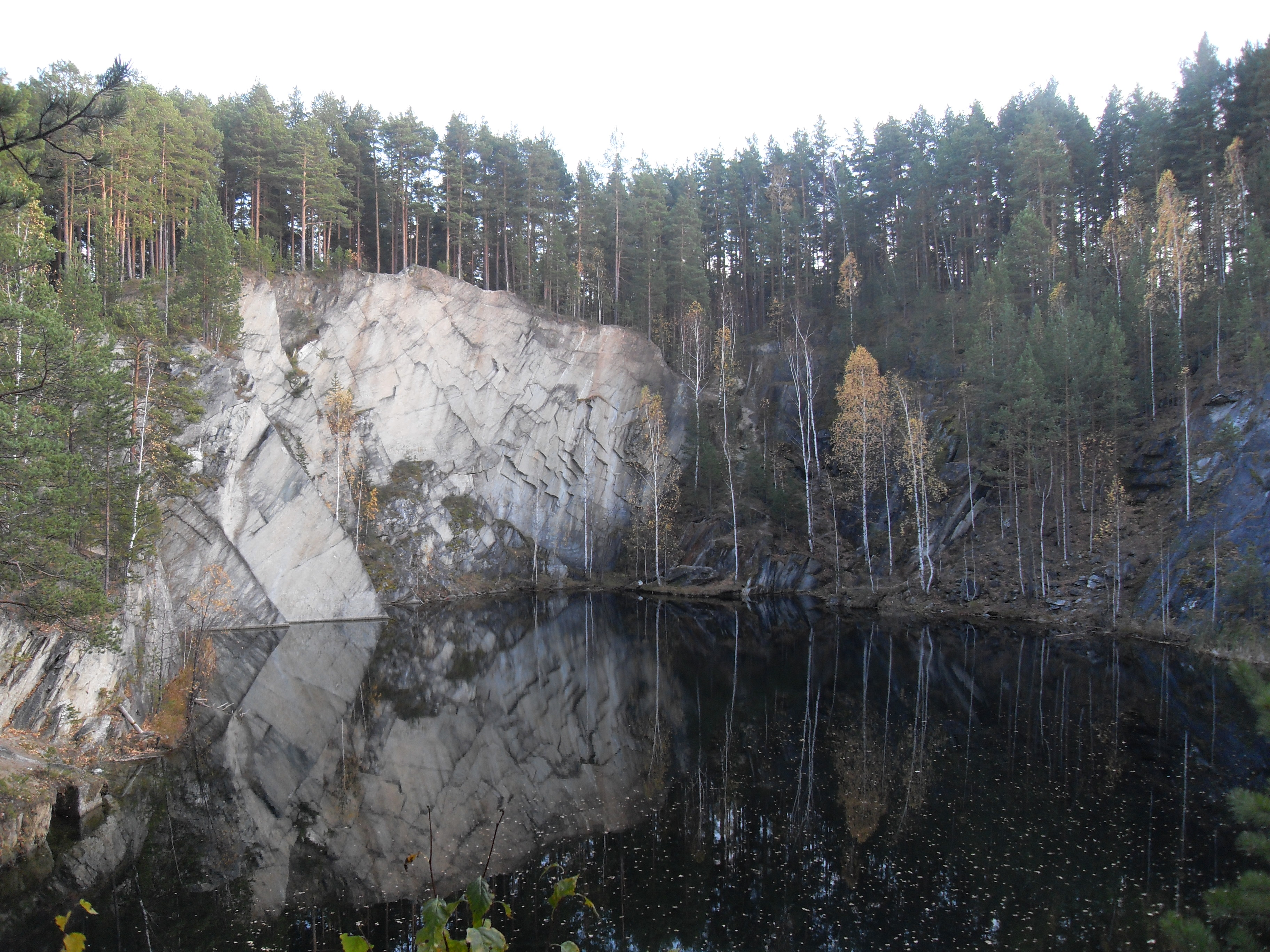 Talkov kamen Lake